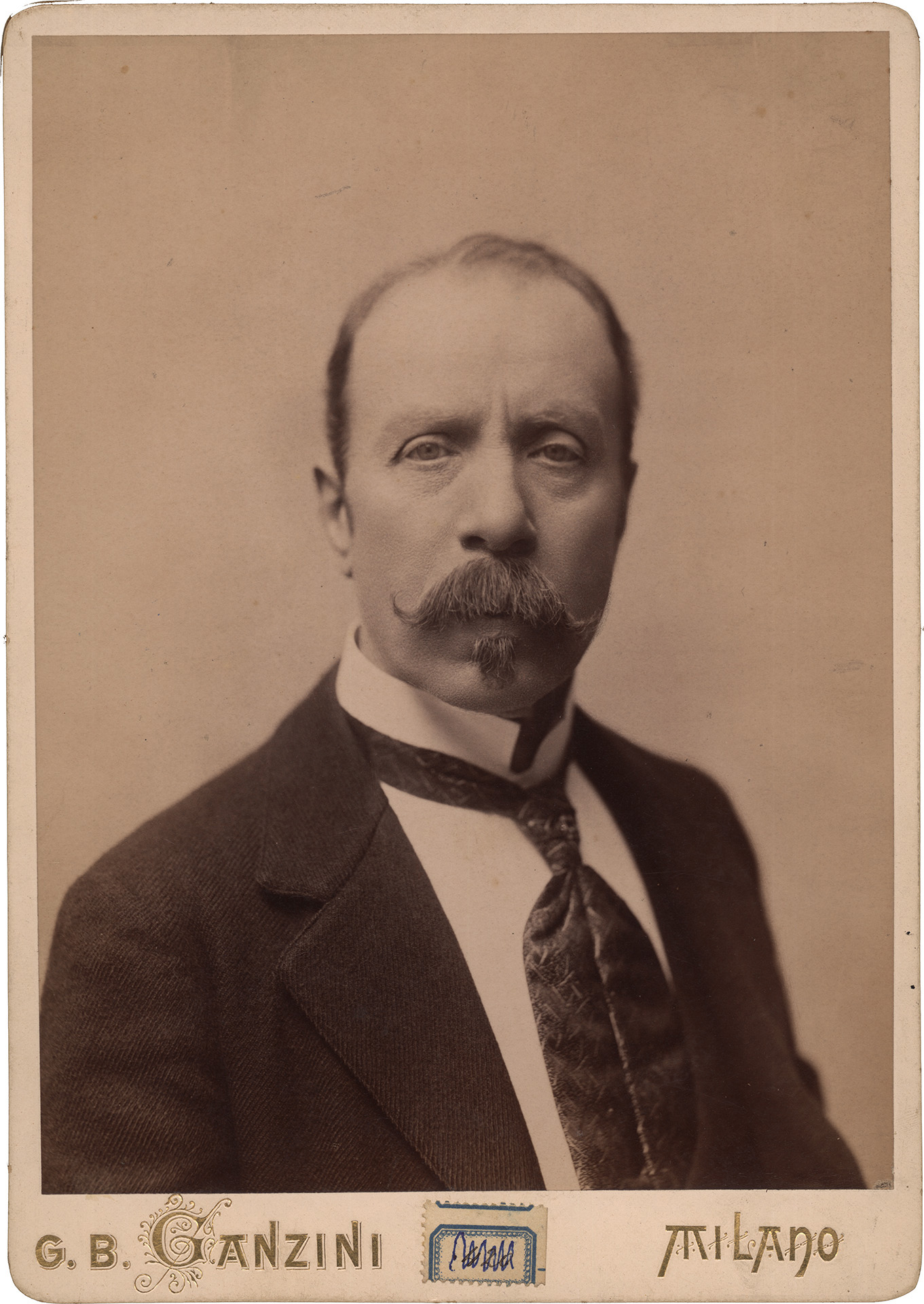 Portrait of Luigi Manzotti, coreographer (1835-1905). Photo by Giovan Battista Ganzini, Milano, before 1878.